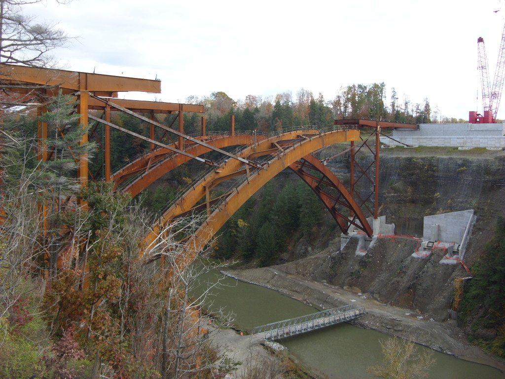 U.S. Route 219 north of Springville, New York showing the newer Southern Expressway bridge under construction in October 2008.